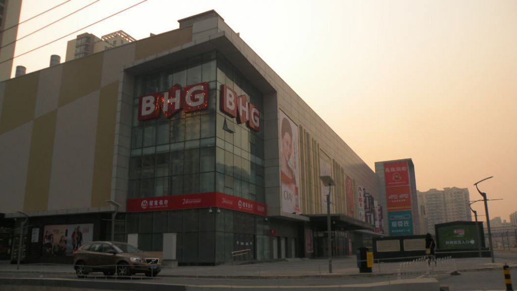 BHG Mall at Tiantongyuan